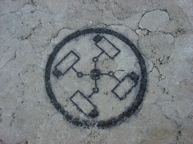 CCTV graffiti Presumably a protest against the amount of CCTV cameras in the area, this graffiti is seen on the wall of the British Library